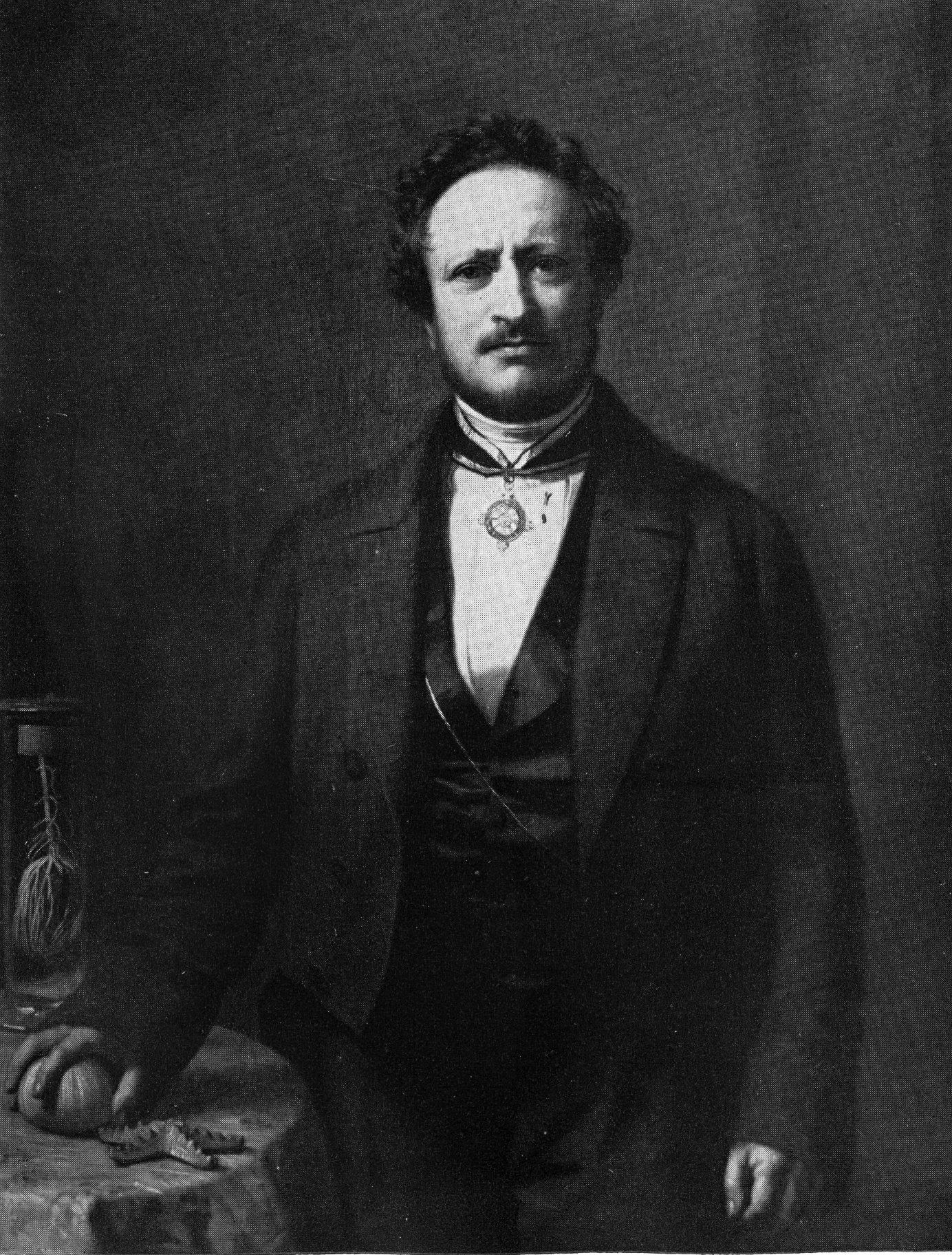 Johannes Müller (1801-1858); 1856; 134:103 cm